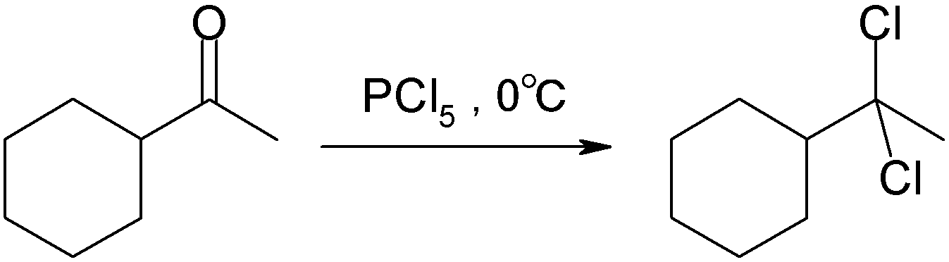 Cyclohexyl_methyl_ketone_to_gem-dichloride